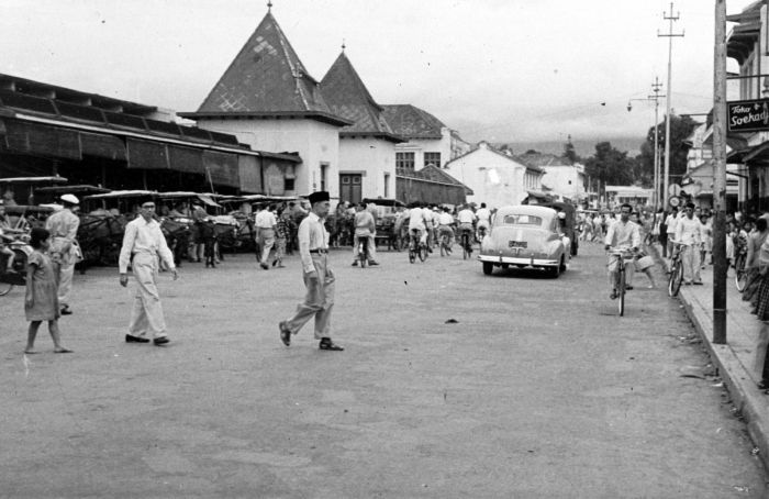 Pasar Baru